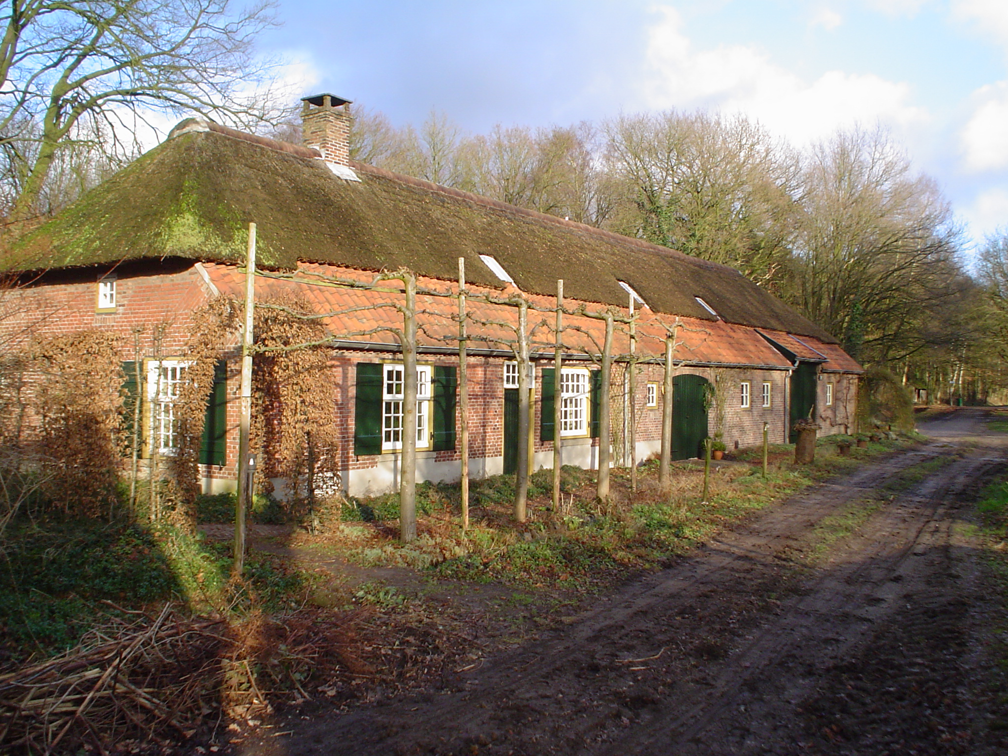 A farmhouse with a typical long front in the hamlet Vliet, near Veldhoven.